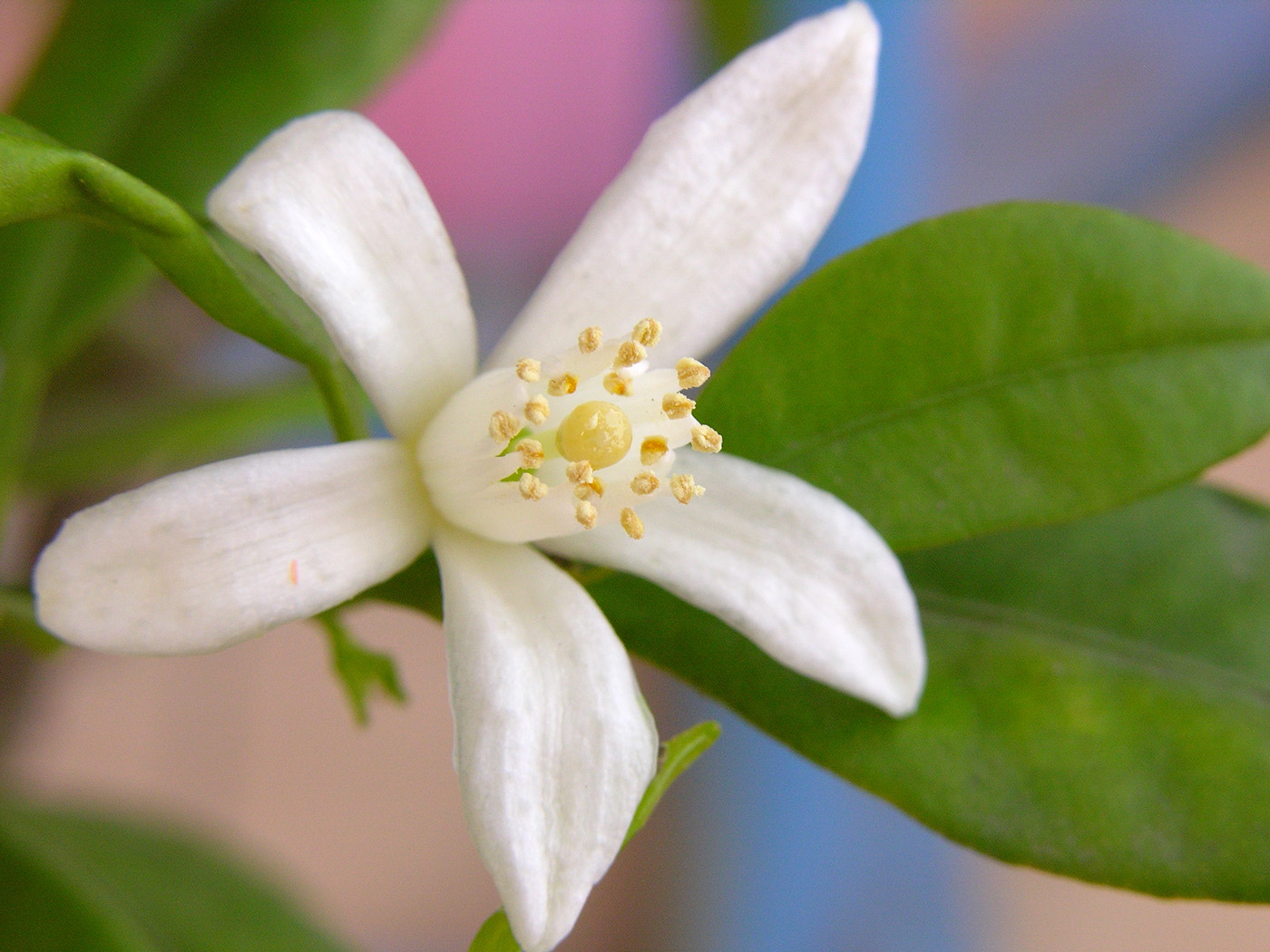 Flowers of Fortunella.